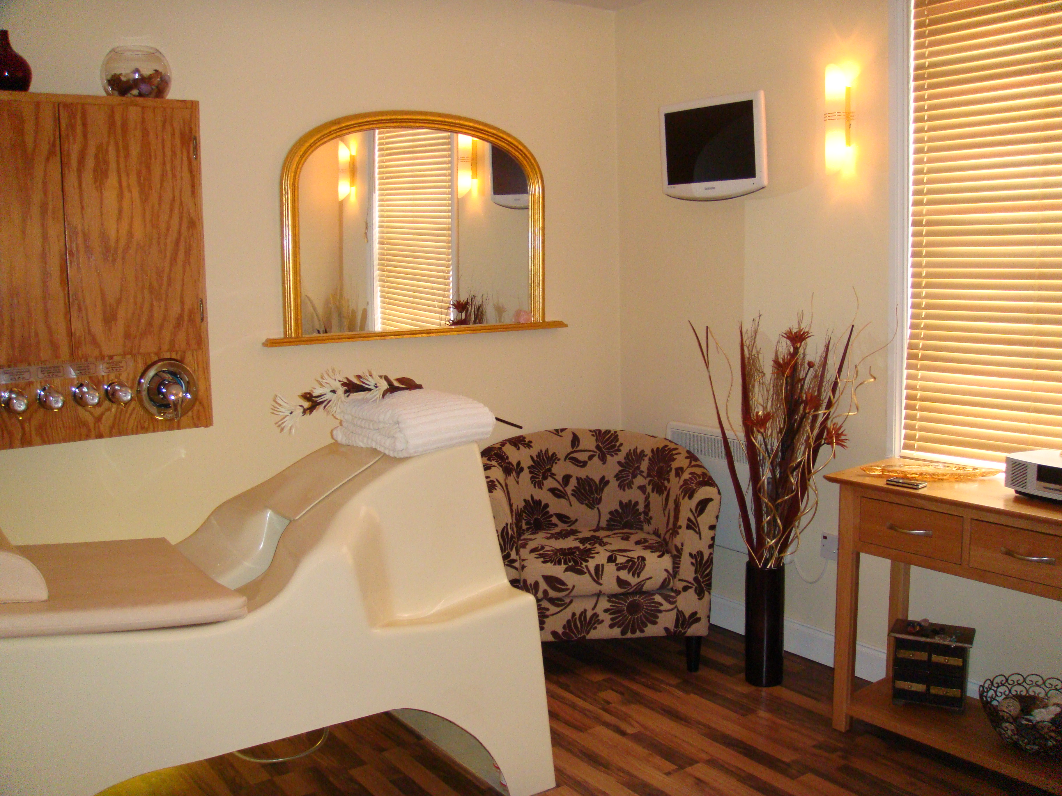 LIBBE Colon Hydrotherapy Device In Modern Treatment Environment.